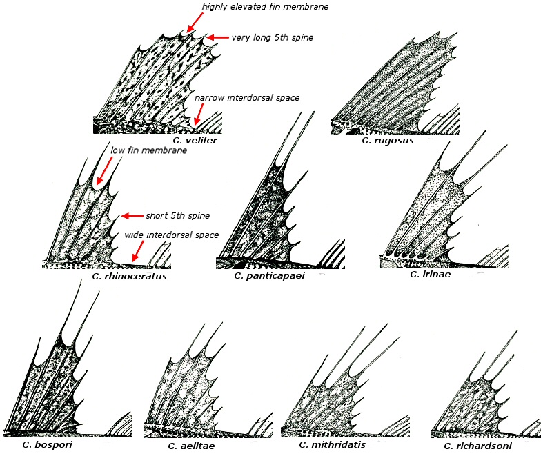 First dorsal fin in 9 icefishes of the genus Channichthys